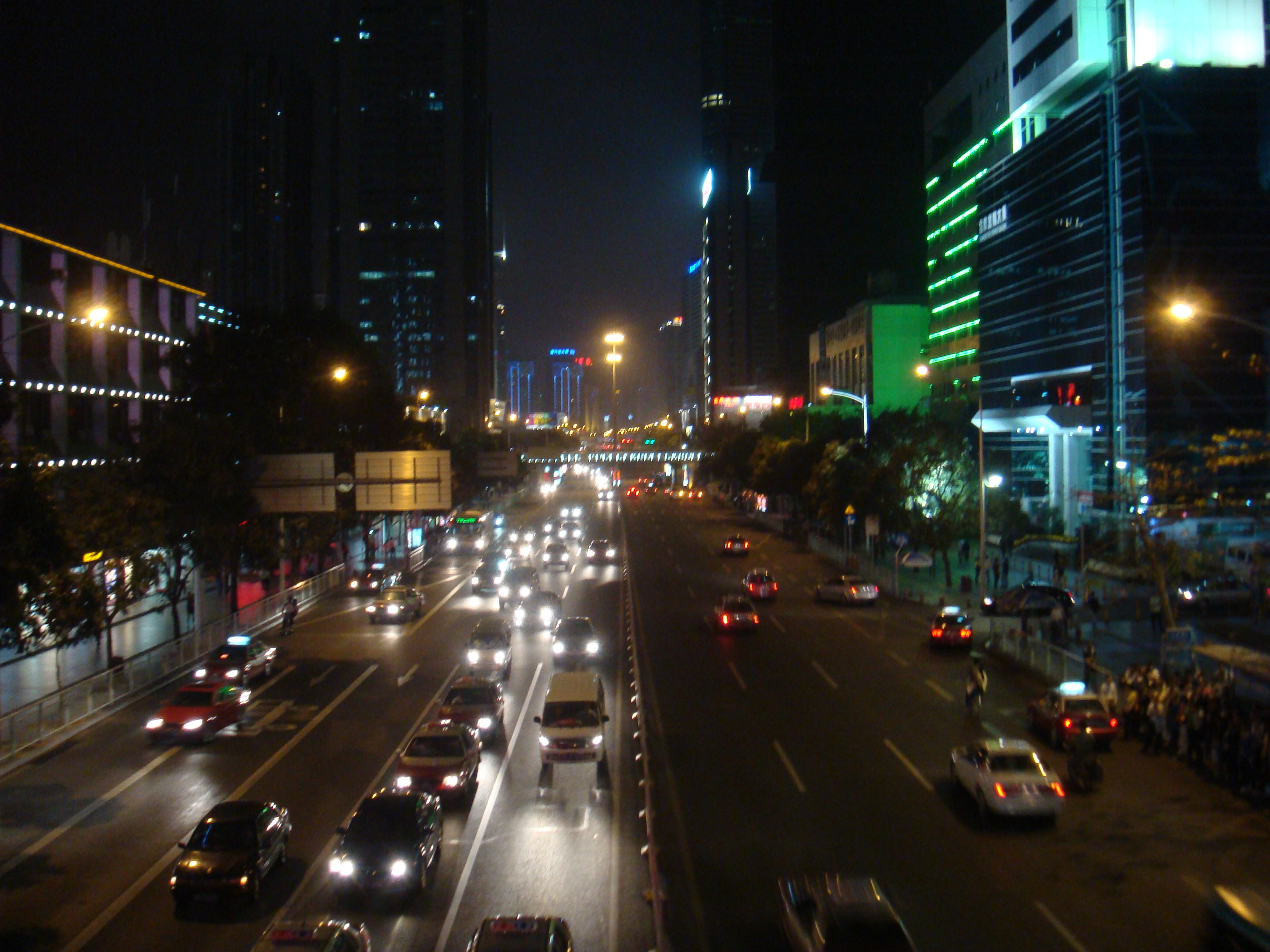 Shen Nan Rd. E West Night View